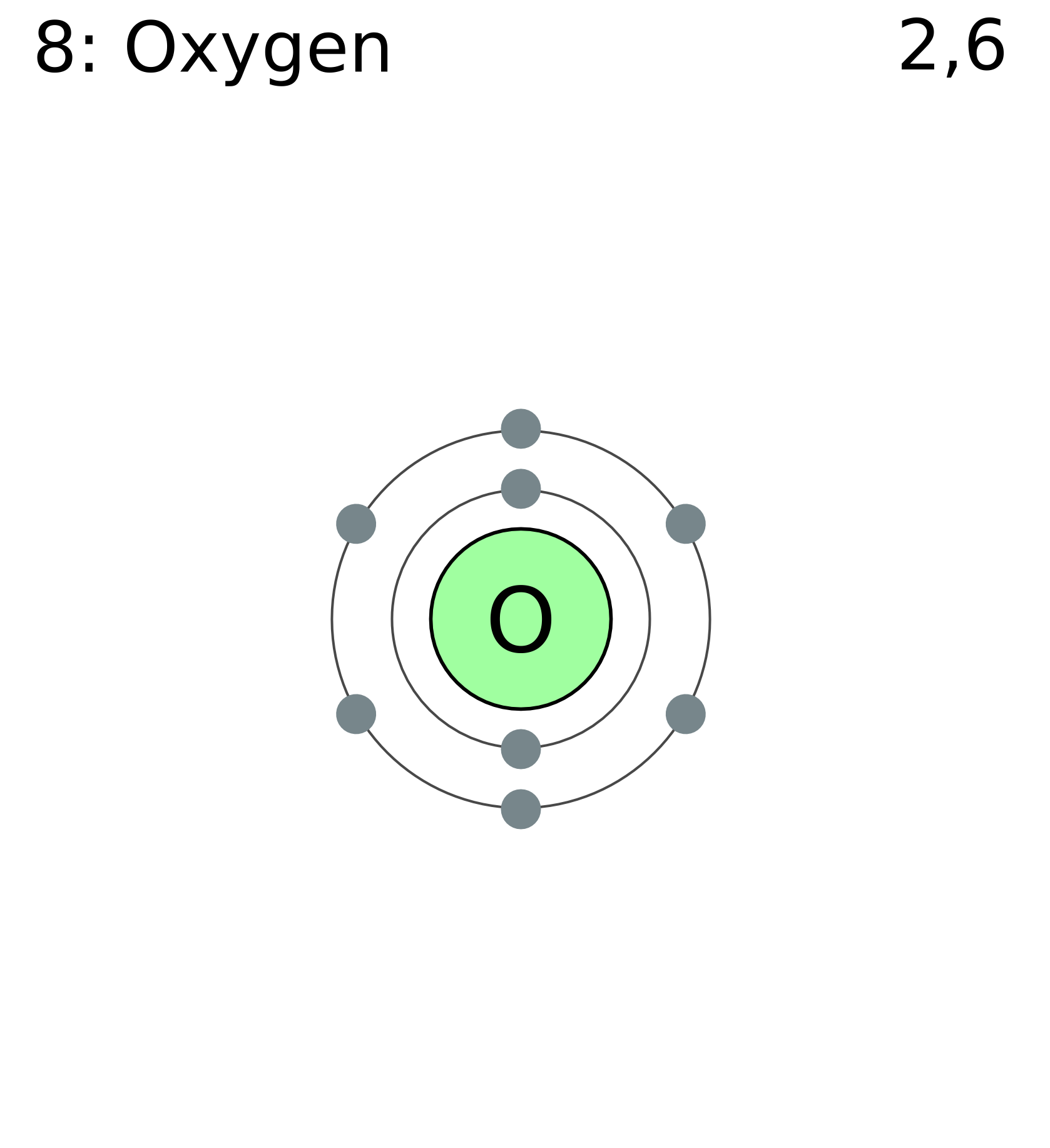 Electron shell diagram for Oxygen, the 8th element in the periodic table of elements.